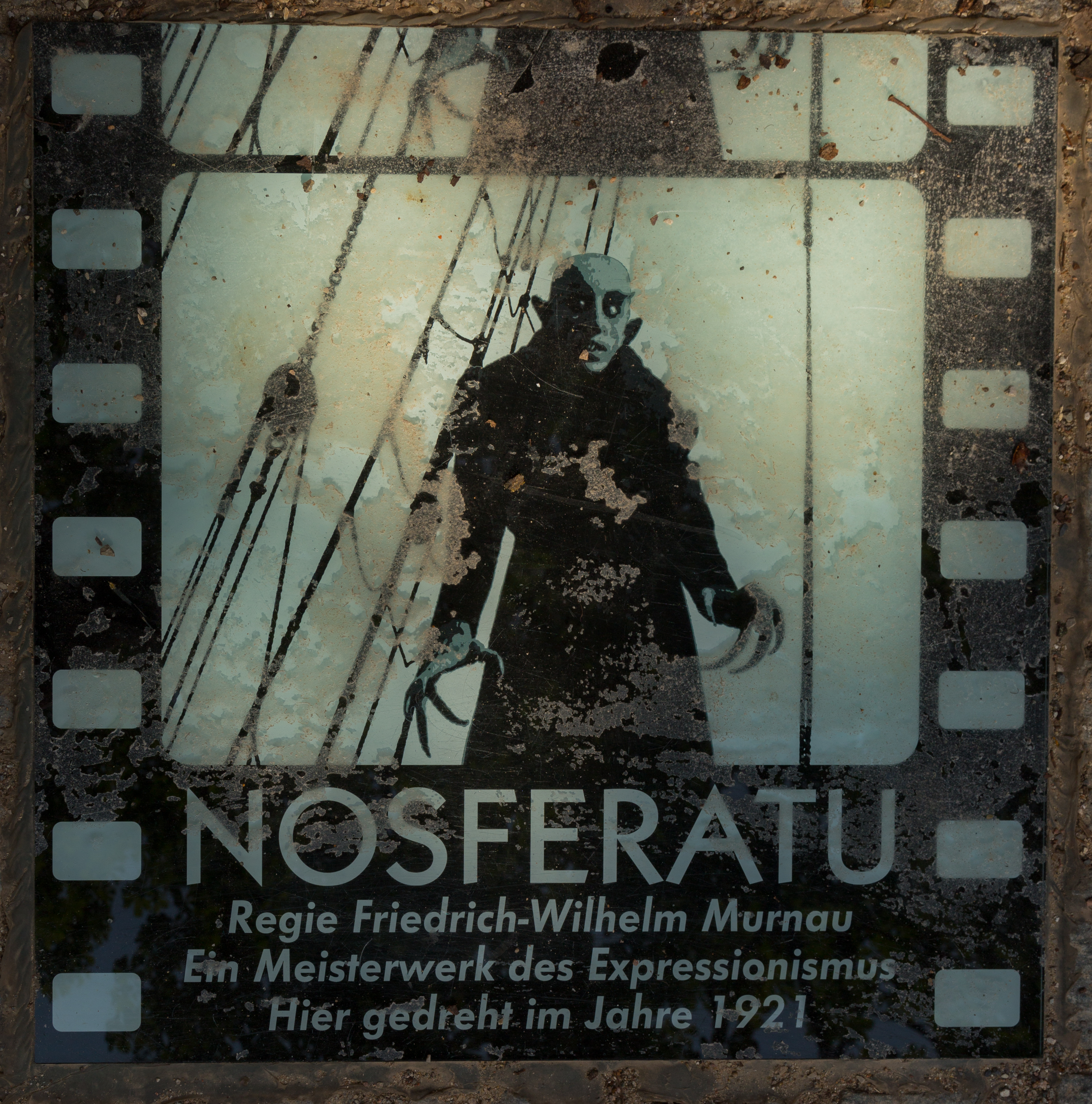 Commemorative plaque for the silent motion picture classic Nosferatu (1922) near the entrance gate of the Holy Spirit Churchyard (Heilig-Geist-Hof) in Wismar, Landkreis Nordwestmecklenburg, Mecklenburg-Vorpommern, Germany. Parts of the film were shot in Wismar.